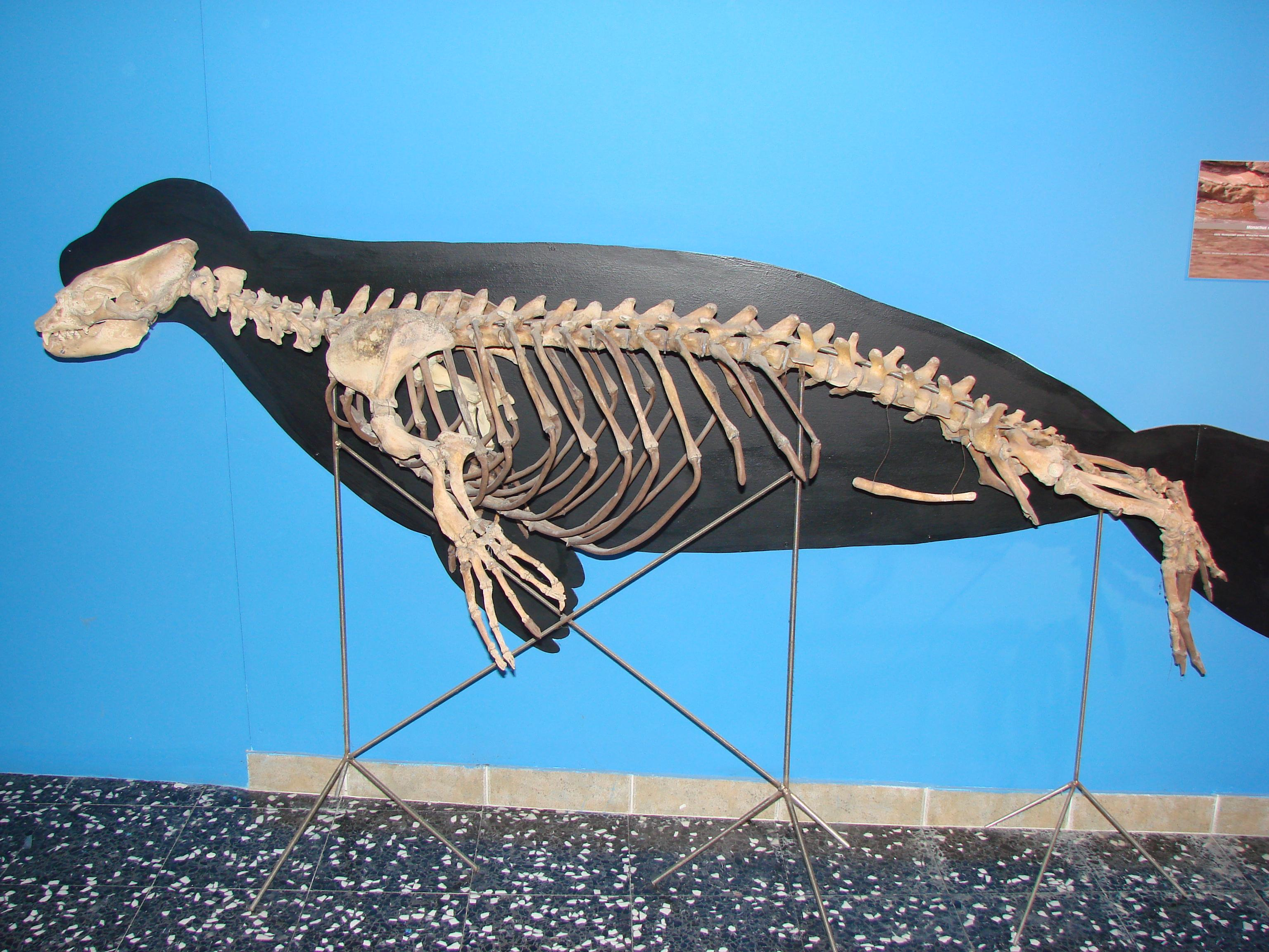 A Monachus monachus skeleton exibited in Alonissos.